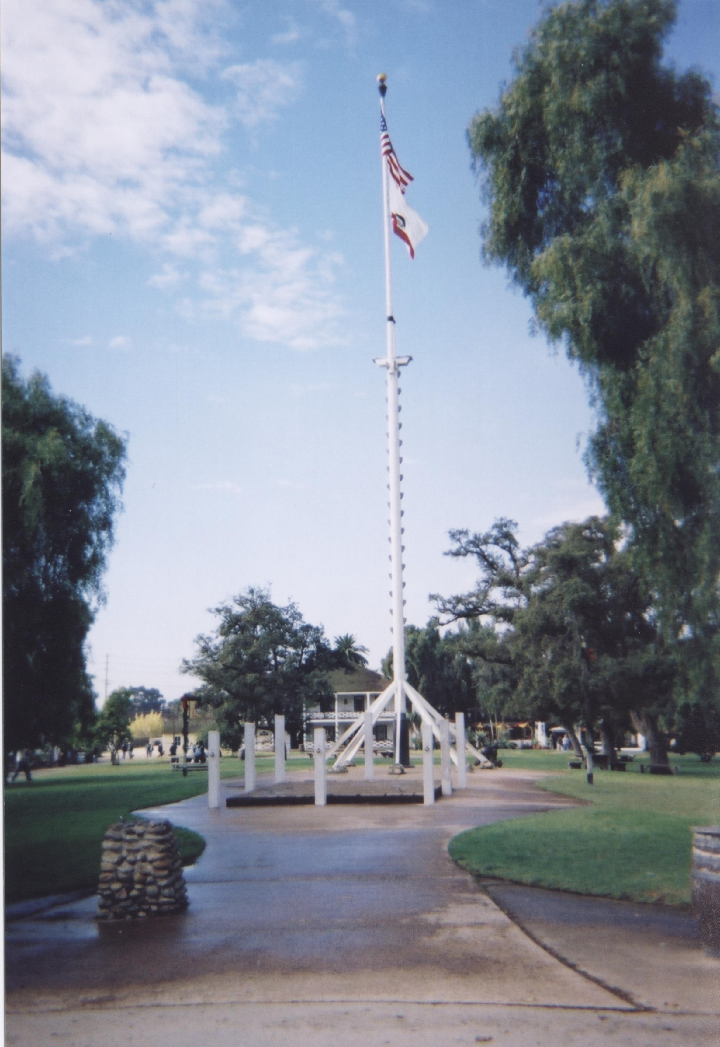 Old Town San Diego